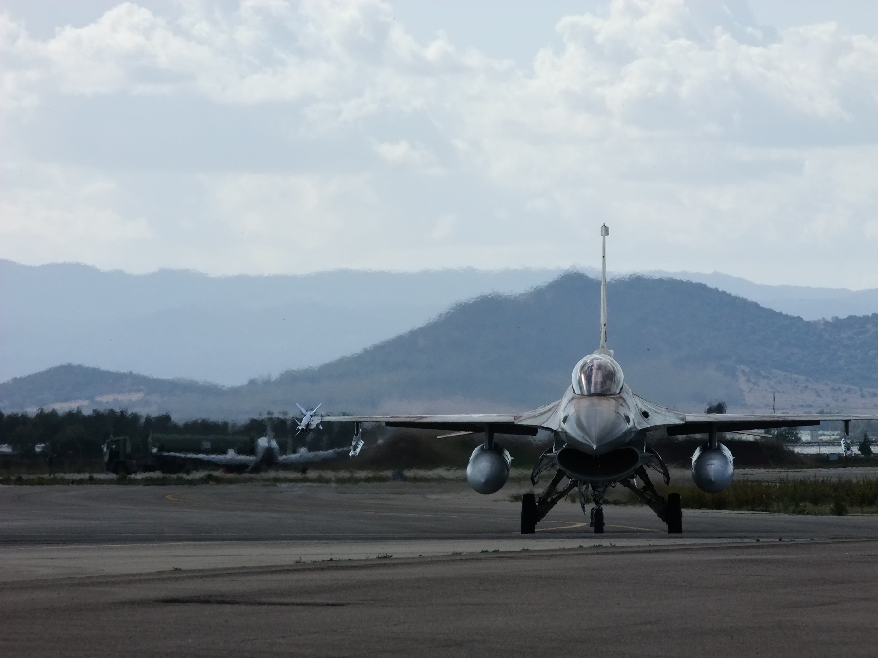 November 3, 2011 After five months of preparations, a joint cooperation with the Italian Air Force has finally happened! The Israeli delegation a few days ago had joined forces with the Italian Air Force in the Mediterranean skies. The two air forces shared real-life experiences, technological innovations and even a barbecue! For the full article click here. Featured as Photo of the Day on November 3, 2011. The Israel Defense Forces Facebook page The Israel Defense Forces blog Follow us on Twitter